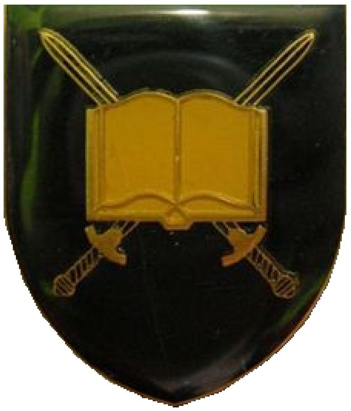 SWATF Military School emblem